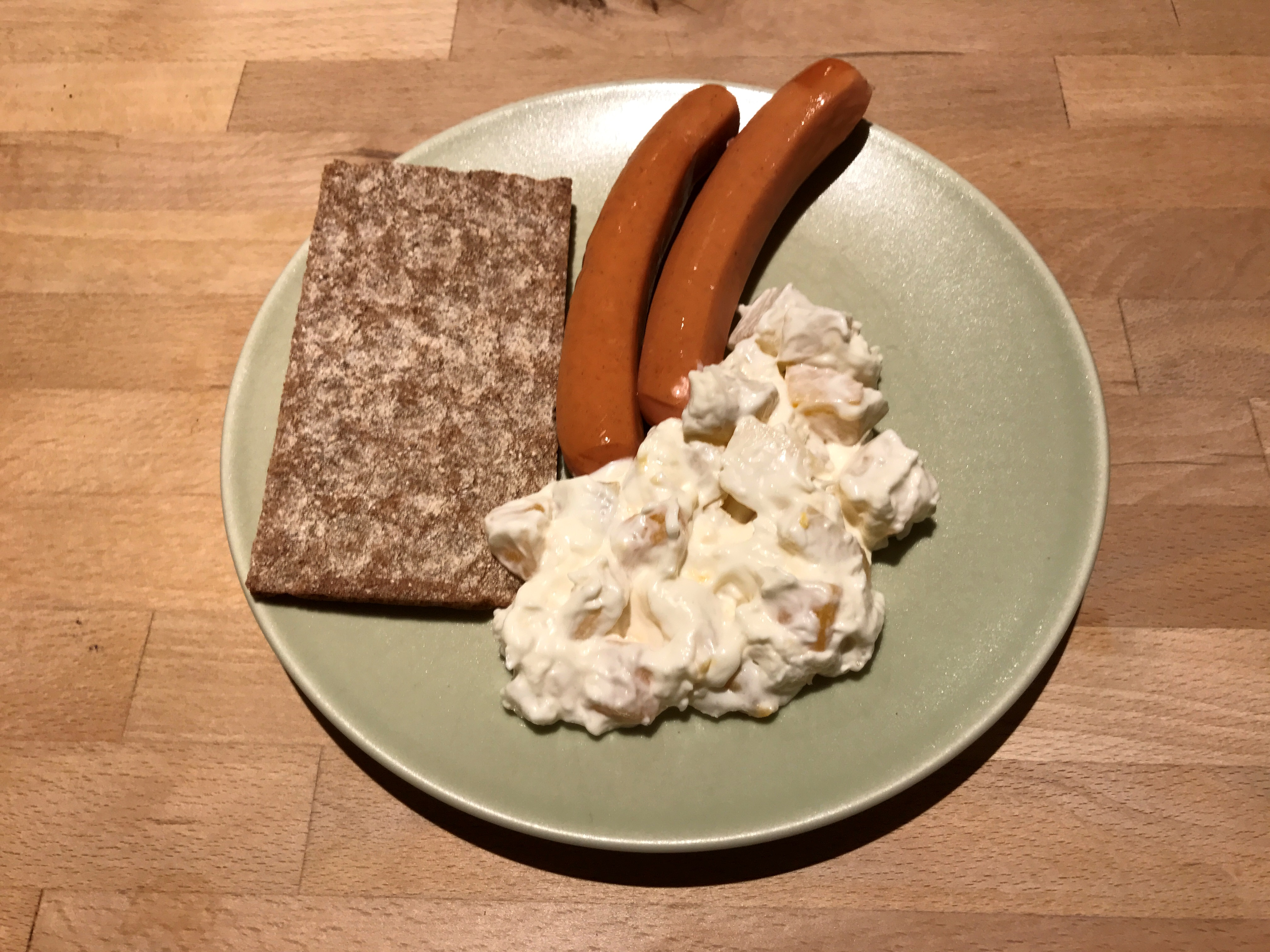 Swedish salad with exotic fruits and mayonnaise - "Mimosasallad". Additional sausages and crispbread.